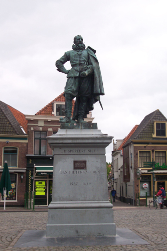 statue of Jan Pieterszoon Coen in Hoorn/NL, made by Ferdinand Leenhoff in 1887.